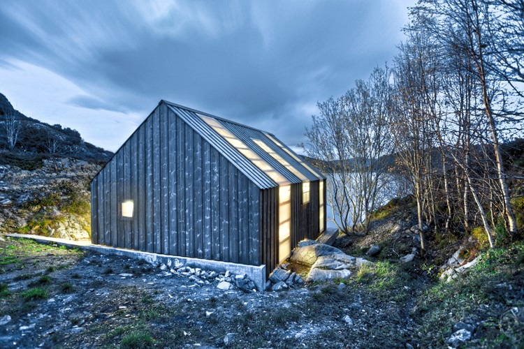 A boathouse on the coast of Norway (Aure, Møre og Romsdal). Erected 2010/2011. Architects: Marianne Lobersli Sorstrom and Yashar Hanstad of TYIN tegnestue Architects